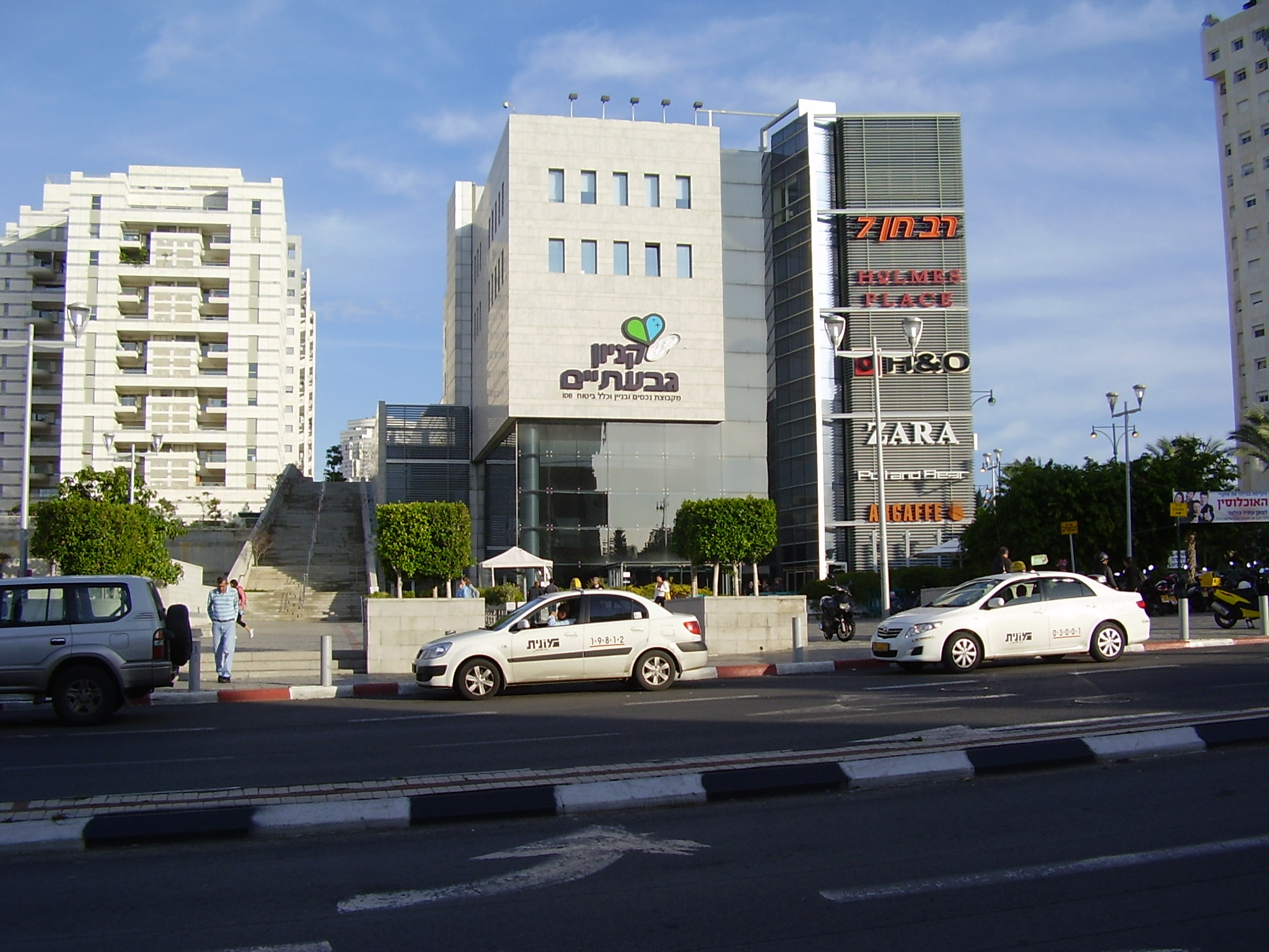 giv'atayim mall, israel קניון גבעתיים